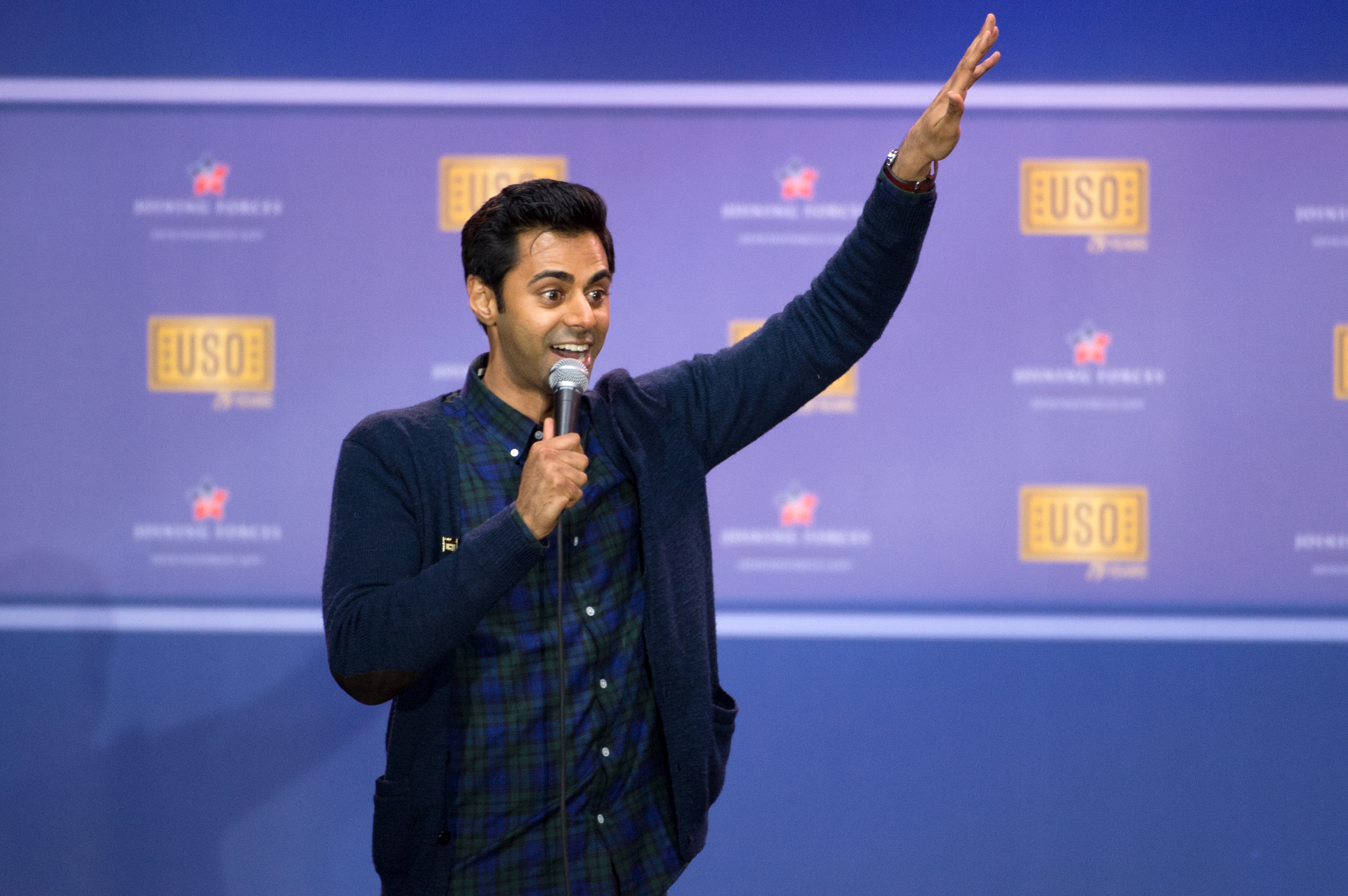 Comedian Hasan Minhaj performs during the comedy show in celebration of the 75th anniversary of the USO and the 5th anniversary of Joining Forces at Joint Base Andrews in Washington, D.C. May 5, 2016. Joining Forces is an initiative to help military, veterans and their families founded by Dr. Jill Biden and First Lady Michelle Obama.